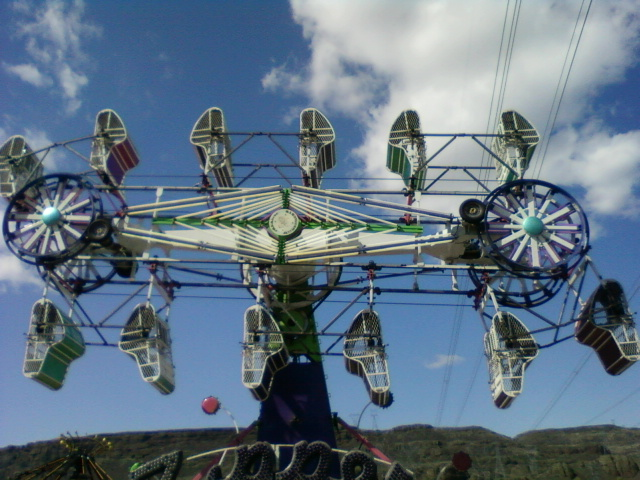 Zipper's oldest model